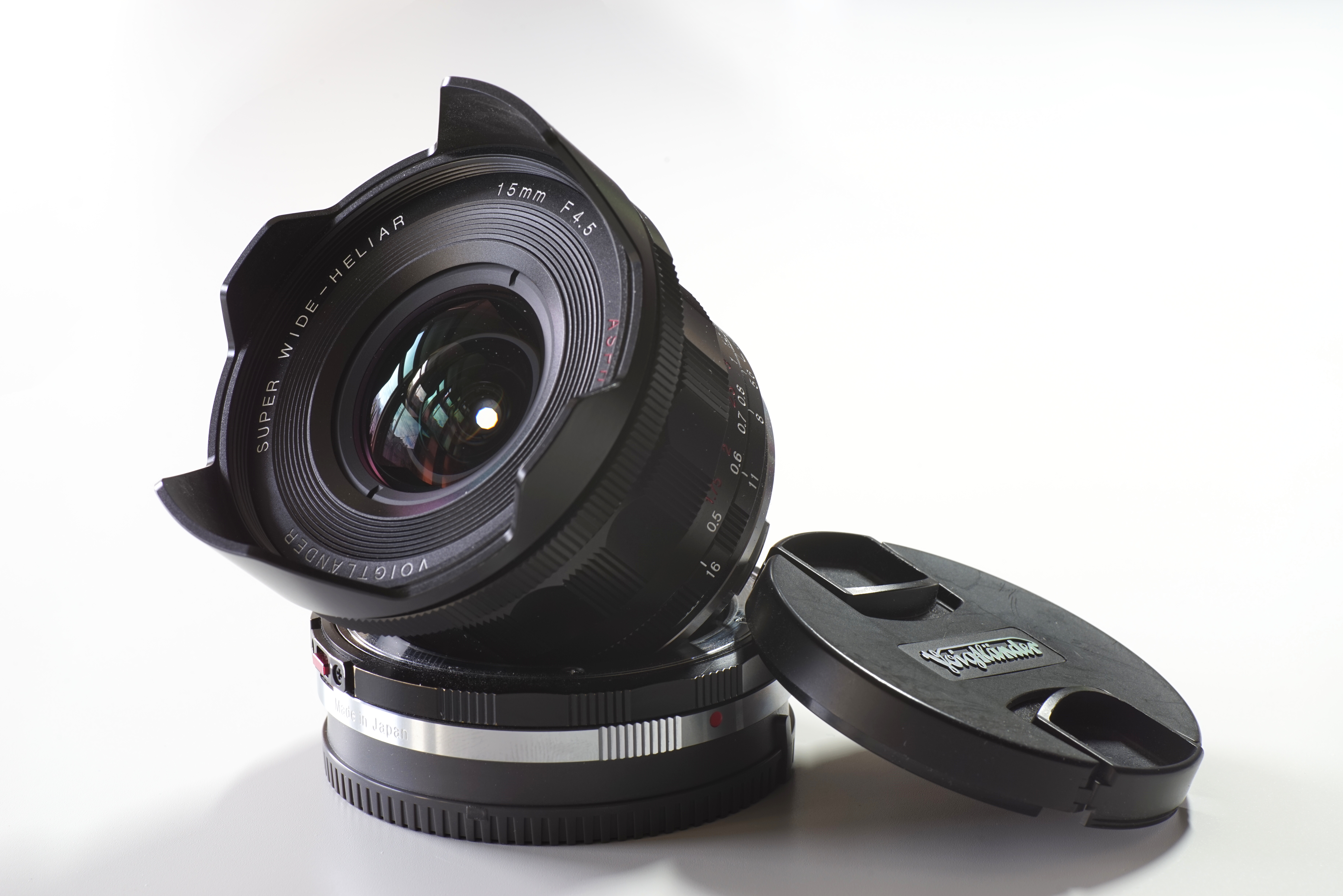 A Cosina Voigtländer Super Wide Heliar 15mm f/4.5 Aspherical III lens sitting on top of a VM-E Close Focus adapter.